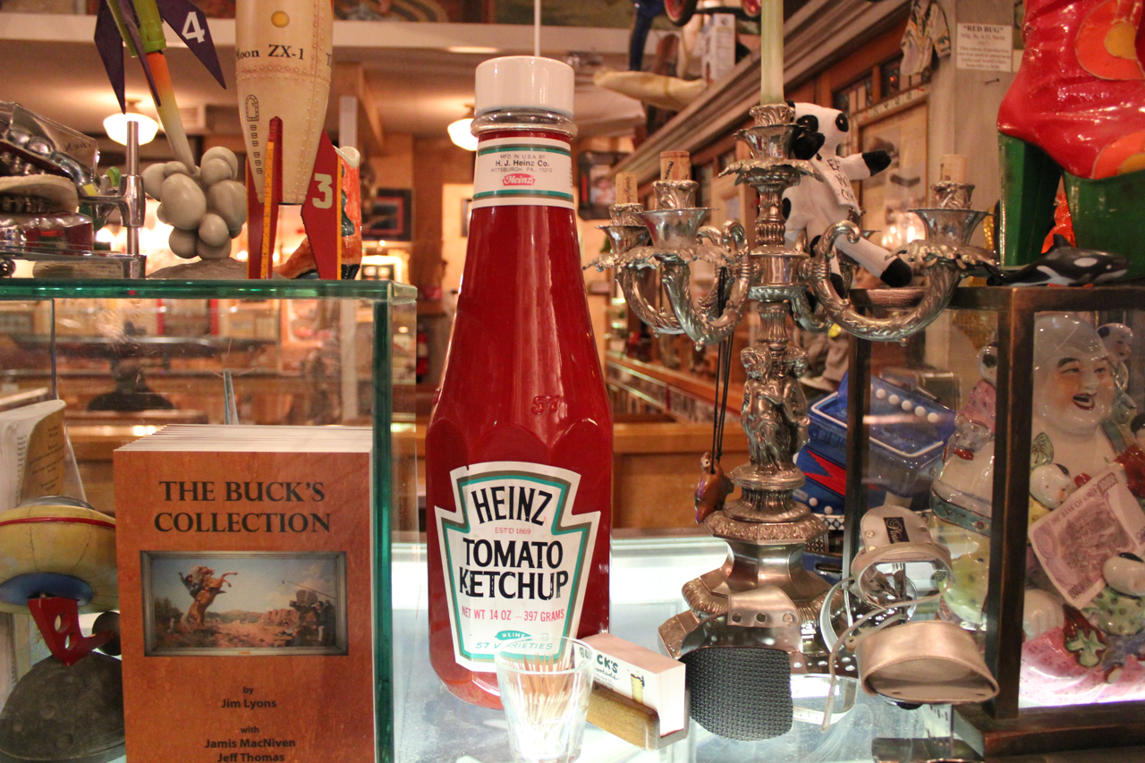 Taken at Buck's in Woodside. This is one of the first things you see when you enter the restaurant--it's on the counter to the right of where the host/hostess greets you.